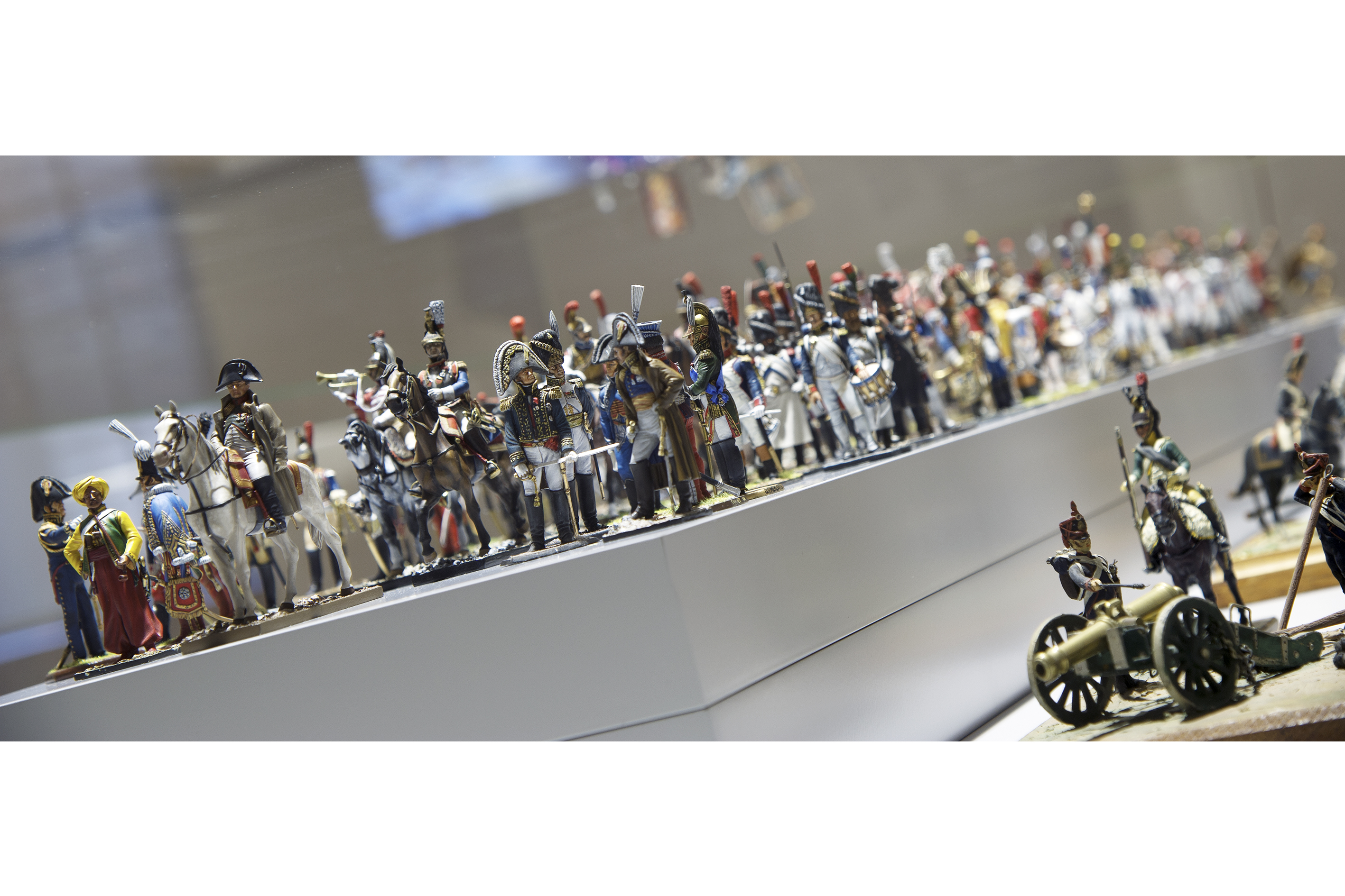 Les cabinets Insolites